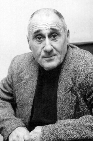 Vazif Meylanov in 2000-s